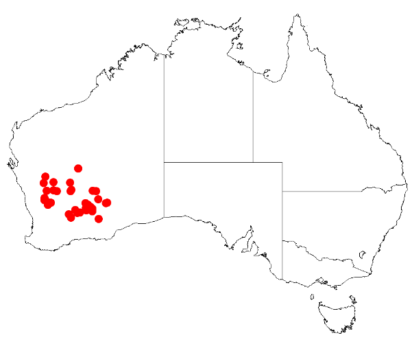 Acacia kalgoorliensis Occurrence data from Australasia Virtual Herbarium downloaded from on 8 December 2018